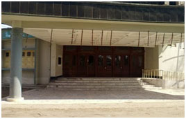 Institute of Pharmacy, Jalpaiguri